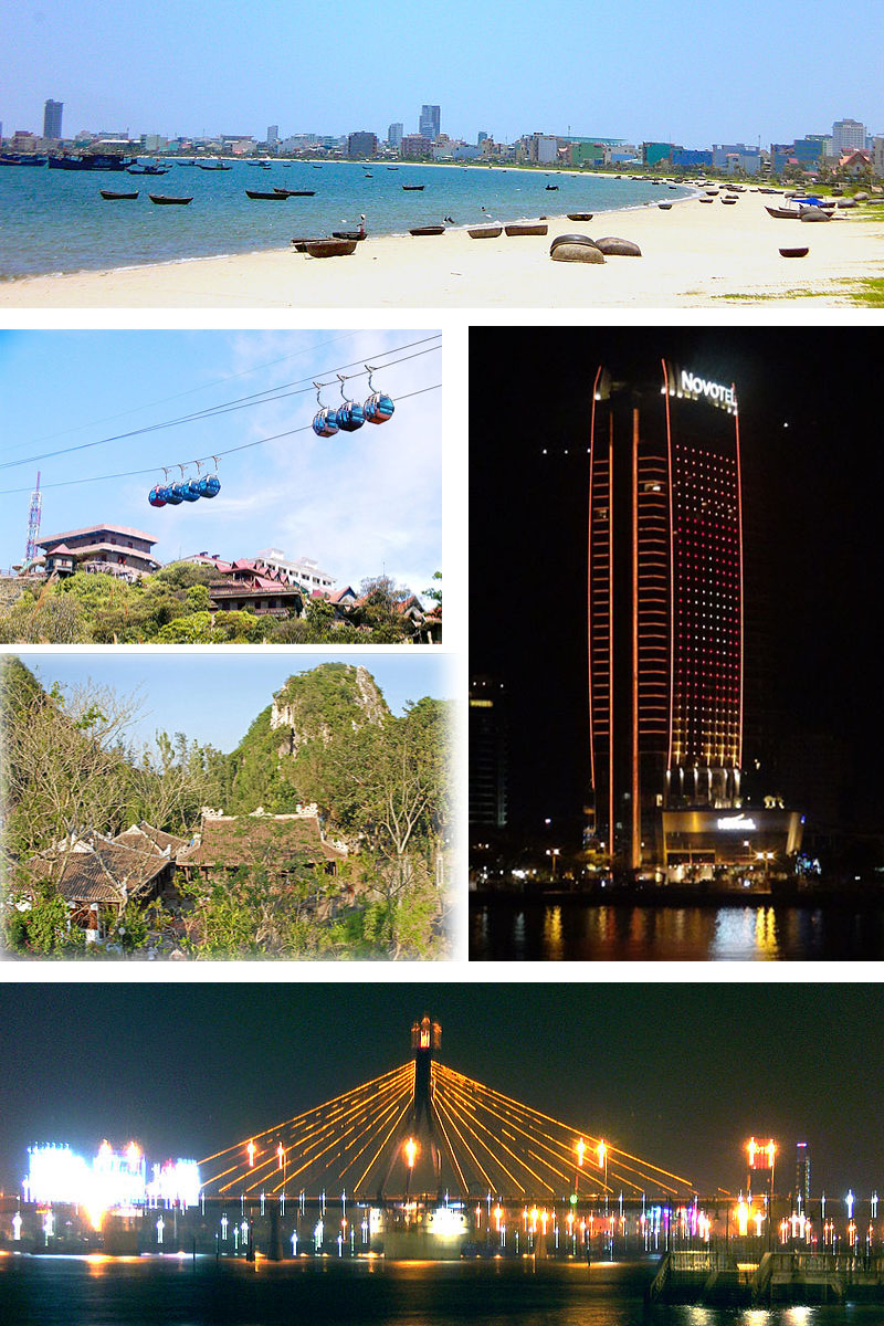 Combined images of landmarks in Da Nang.